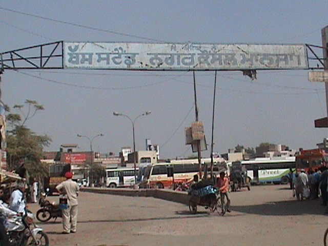 A view of the bus stand of Mansa city of East Punjab (Indian Punjab).